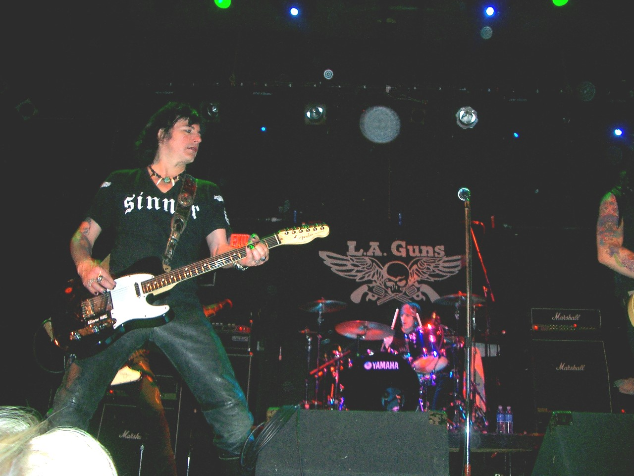 Phil Lewis with Steve Riley on Drums, Stacey Blades on guitar, and Scotty Griffin on Bass at the Chance Theater in Poughkeepsie, NY. March 28, 2008.